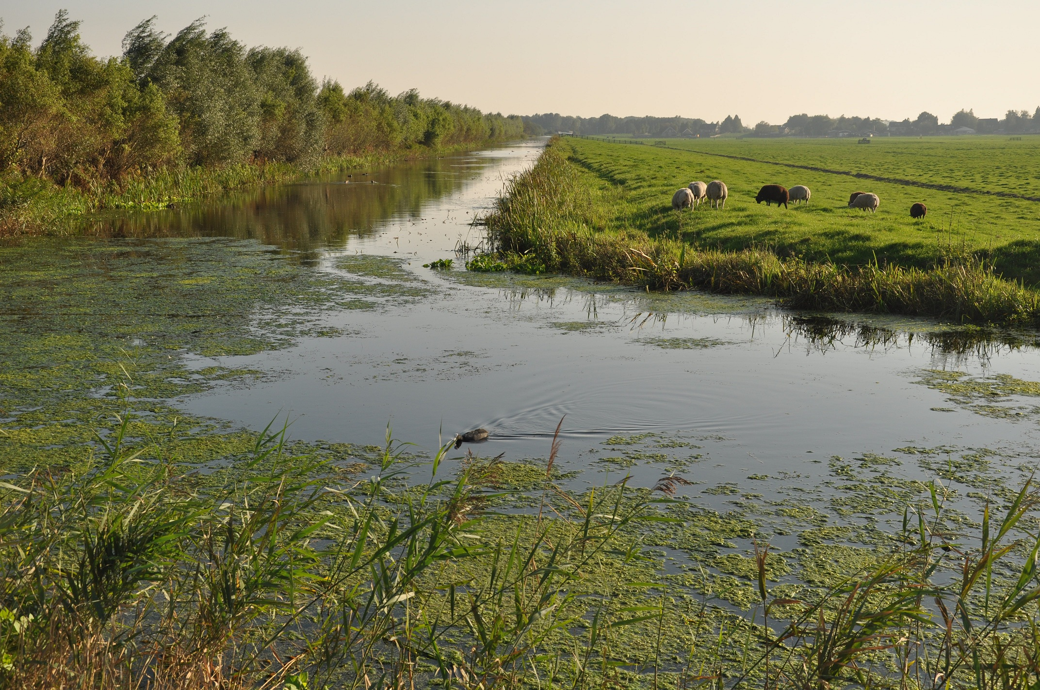 The Boter Polder ('Butter Polder') in Hazerswoude-dorp (municipality Rijnwoude, Province South-Holland, Netherlands).